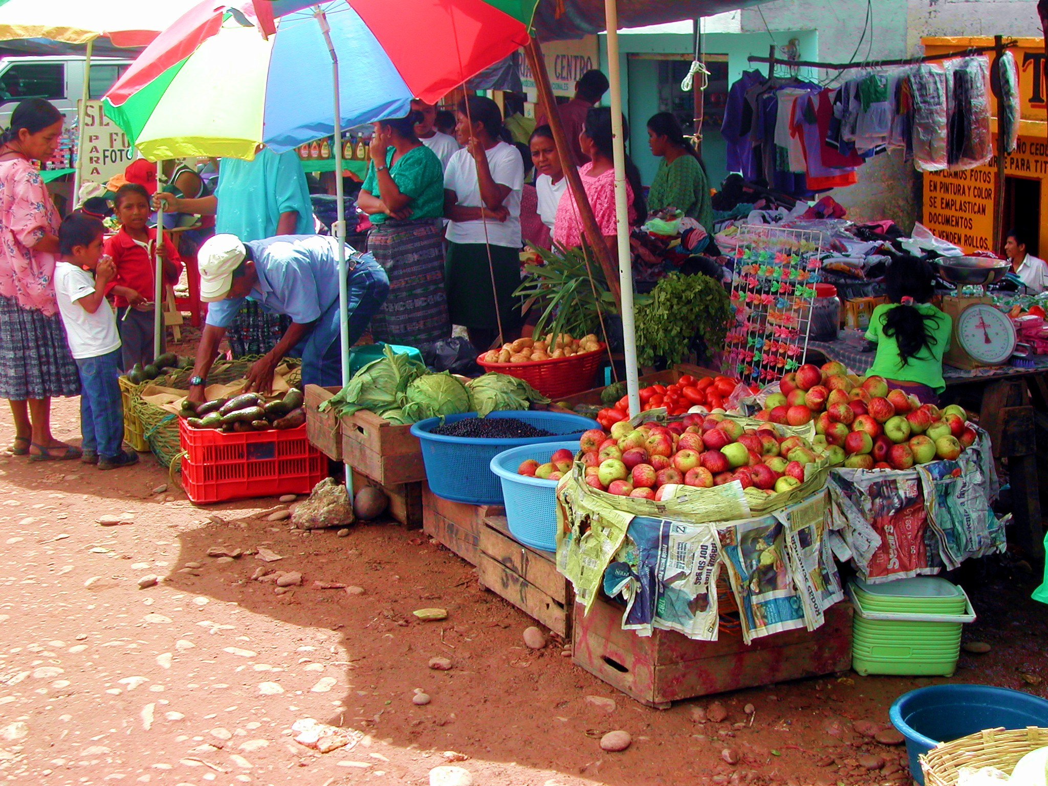 Street market at Playa Grande Municipality,Guatemala